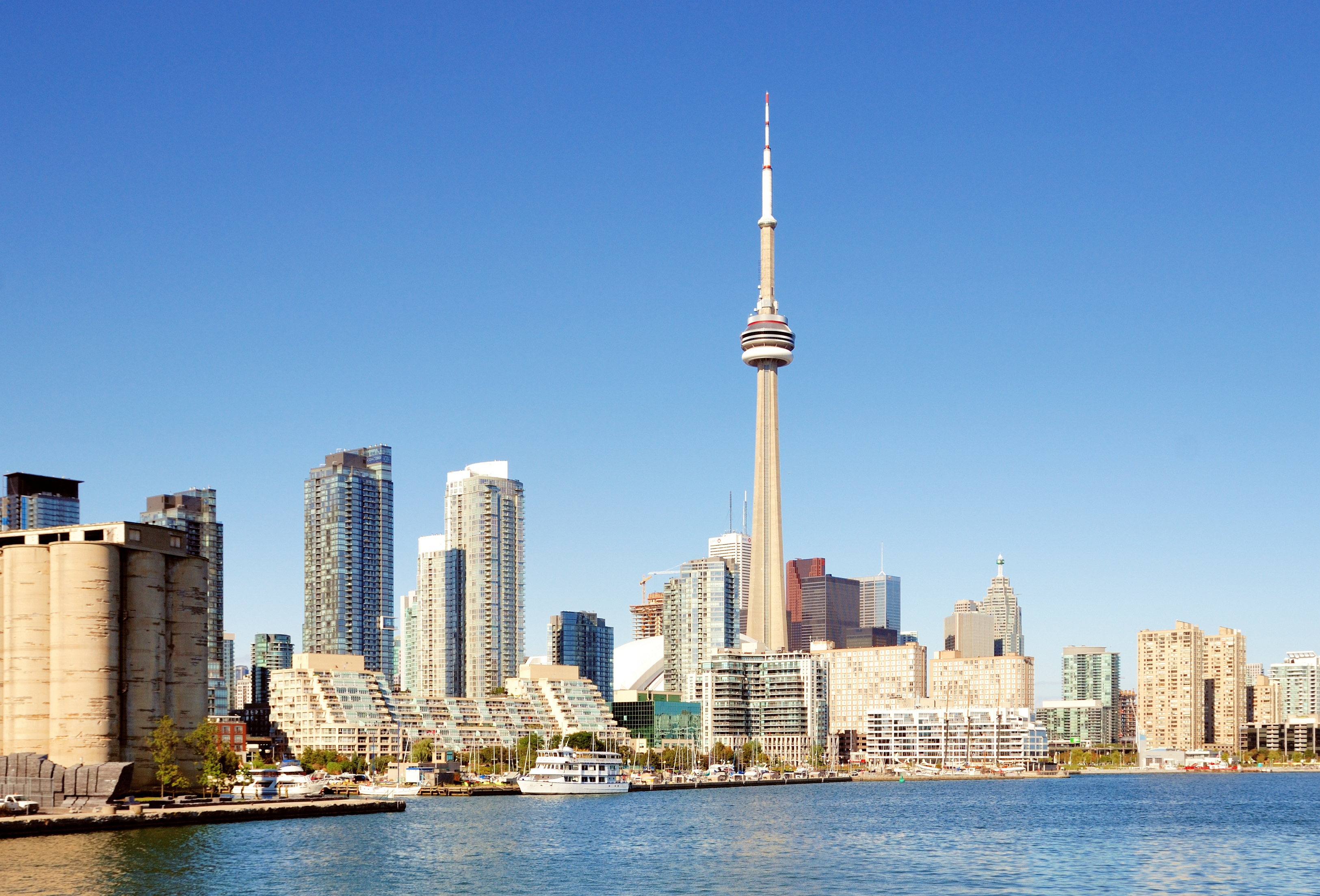 Toronto: Skyline